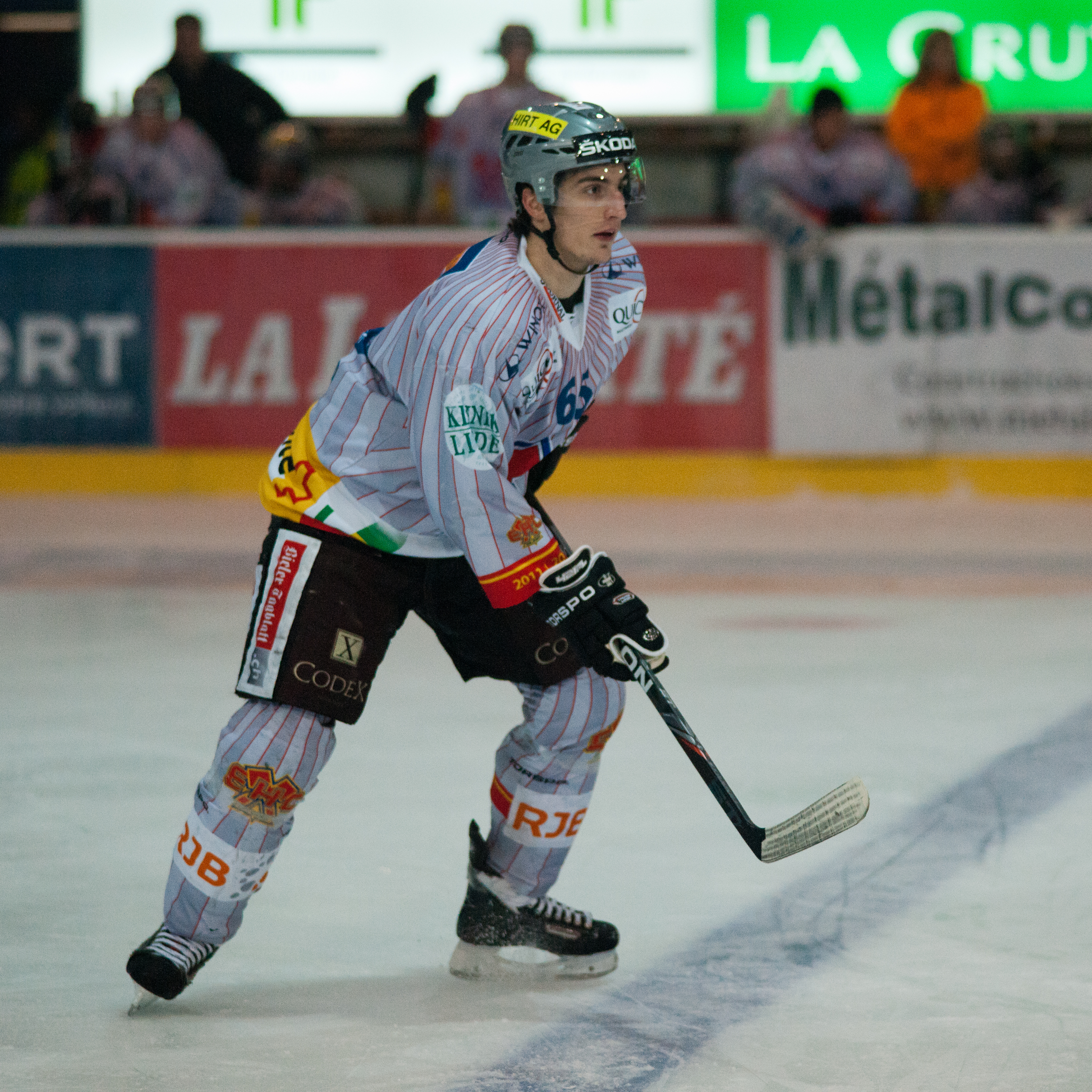 The making of this document was supported by Wikimedia CH. (Submit your project!) For all the files concerned, please see the category Supported by Wikimedia CH. Fribourg-Gotteron vs. HC Bienne, 25.11.2011